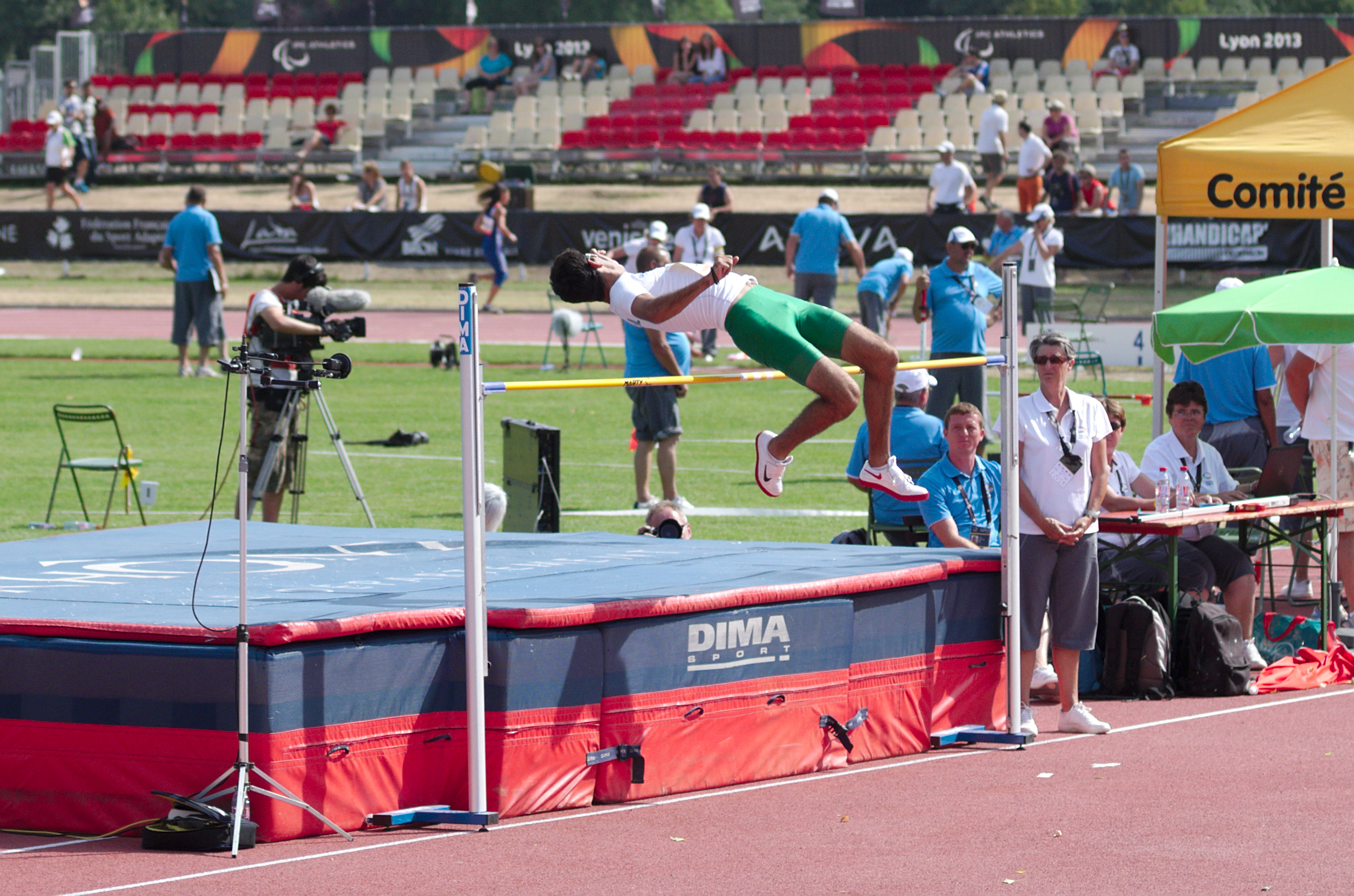 Ernesto Mendonca of Brasil during the Men's High jump - T13